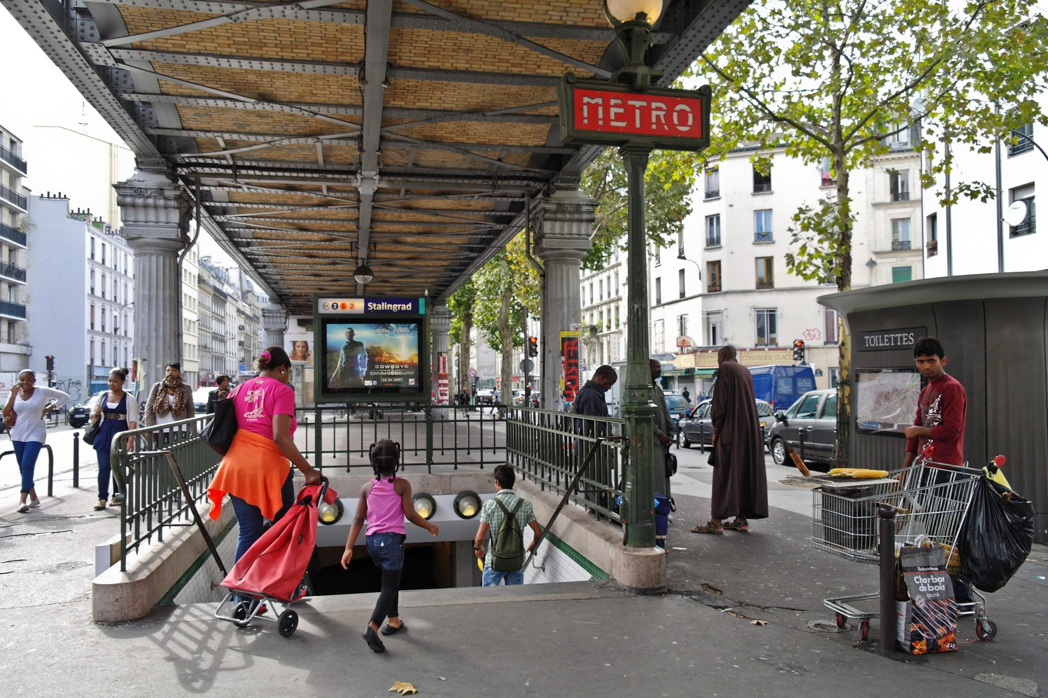 Stalingrad station, Paris.